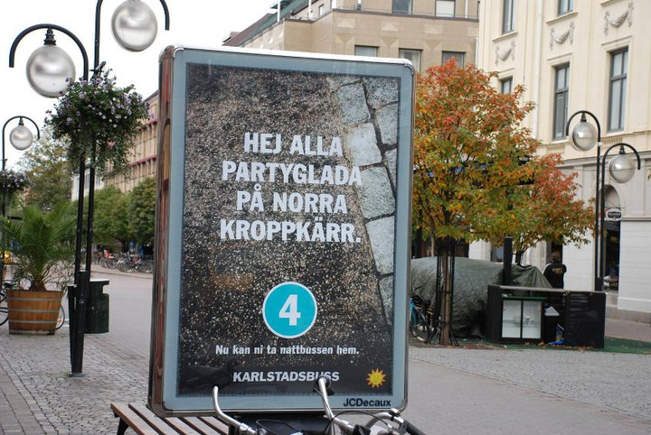 Karlstadsbuss